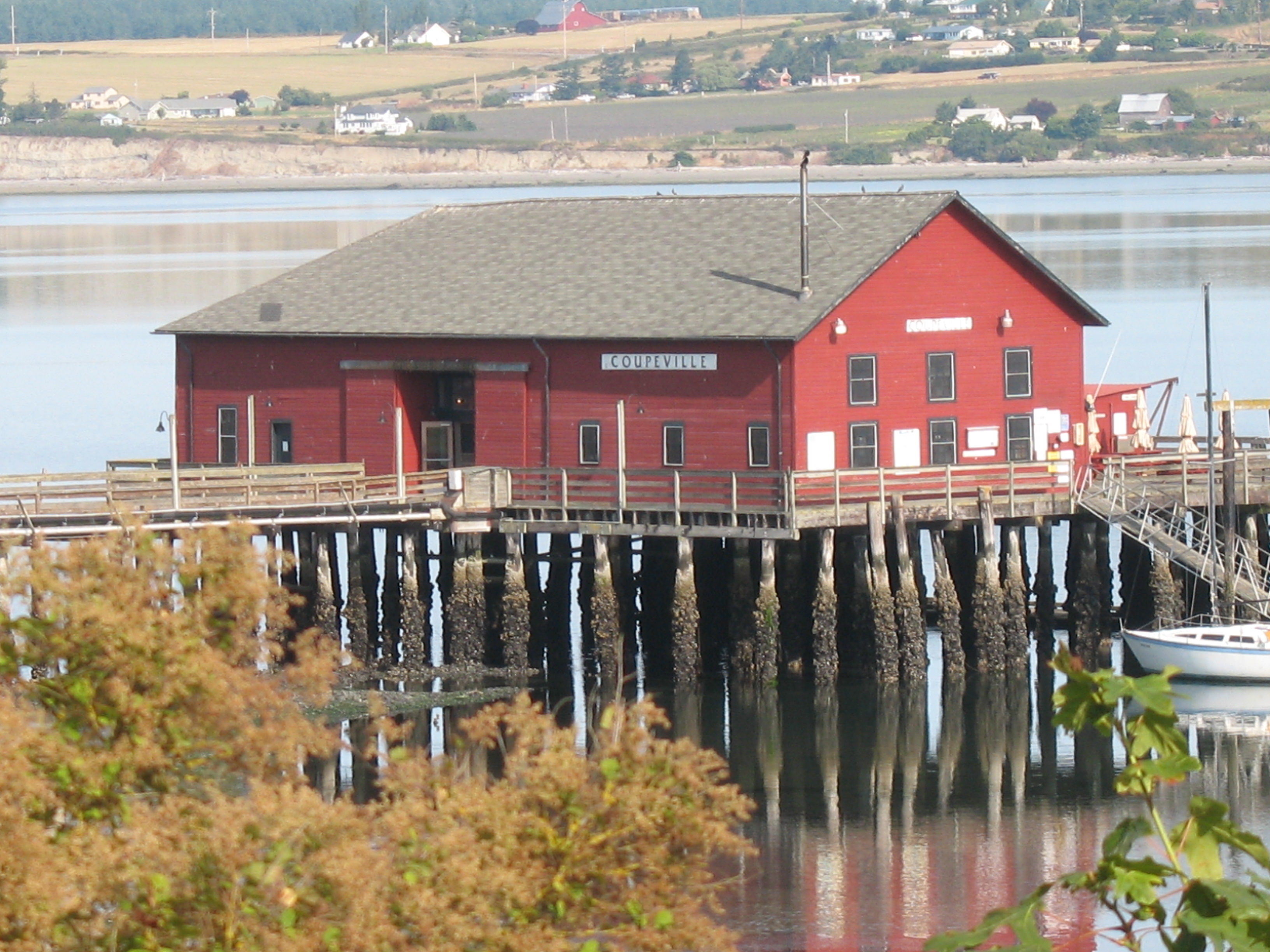 Old Grain Wharf, in the harbour of Coupeville, Whidbey Island, in the Central Whidbey Island Historic District, part of the Ebey's Landing National Historical Reserve.